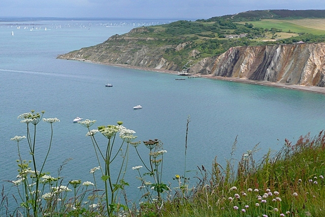 Hatherwood Point and Alum Bay Taken from the road to the Old Battery. Alum Bay sweeps round and across the vertically aligned strata of the Tertiary rocks. Beyond is an area of landslips at Headon Warren, ending at Hatherwood Point. The bulk of the competitors in the 2009 Round the Island yacht race are making their way down the Solent through the narrow gap created by Hurst Castle spit.